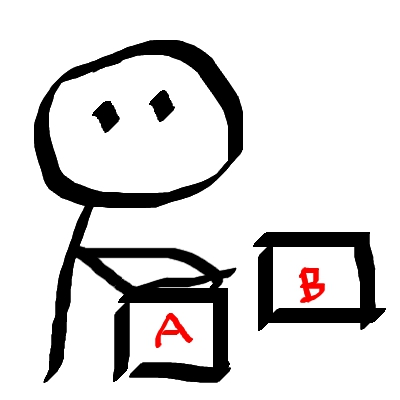 Stick figure - choice